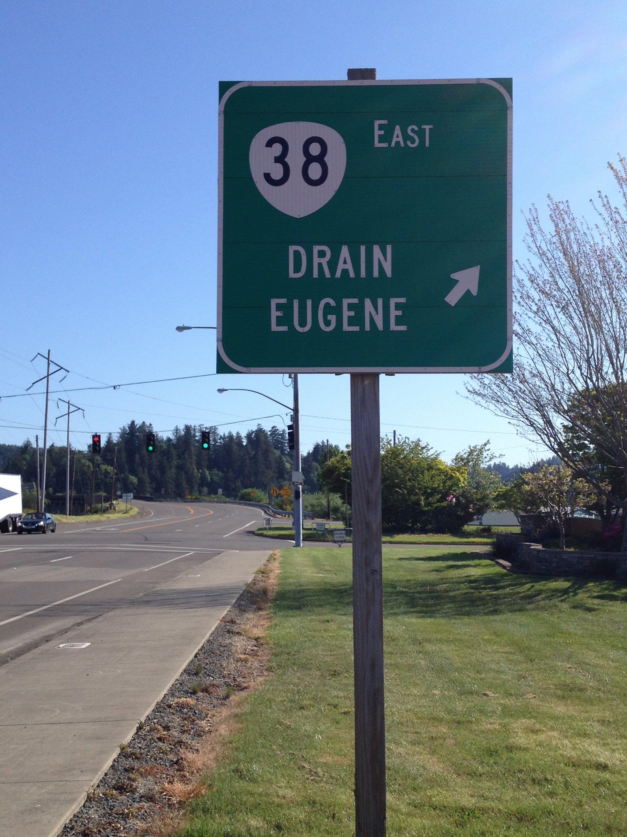 This is where Oregon 38 begins at Reedsport.